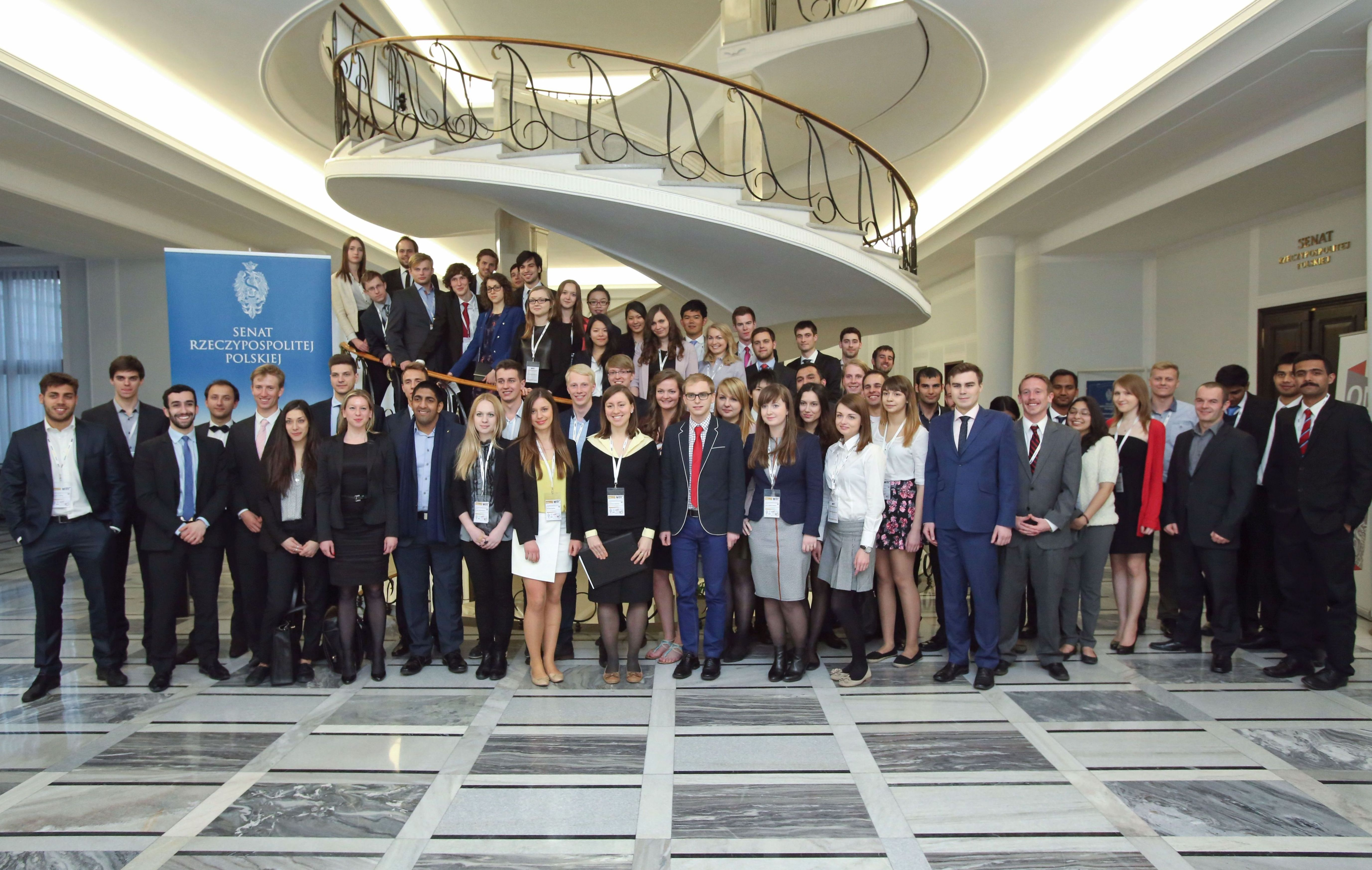 Participants of 5th International Negotiation Tournament – Warsaw Negotiation Round in the Polish Senate